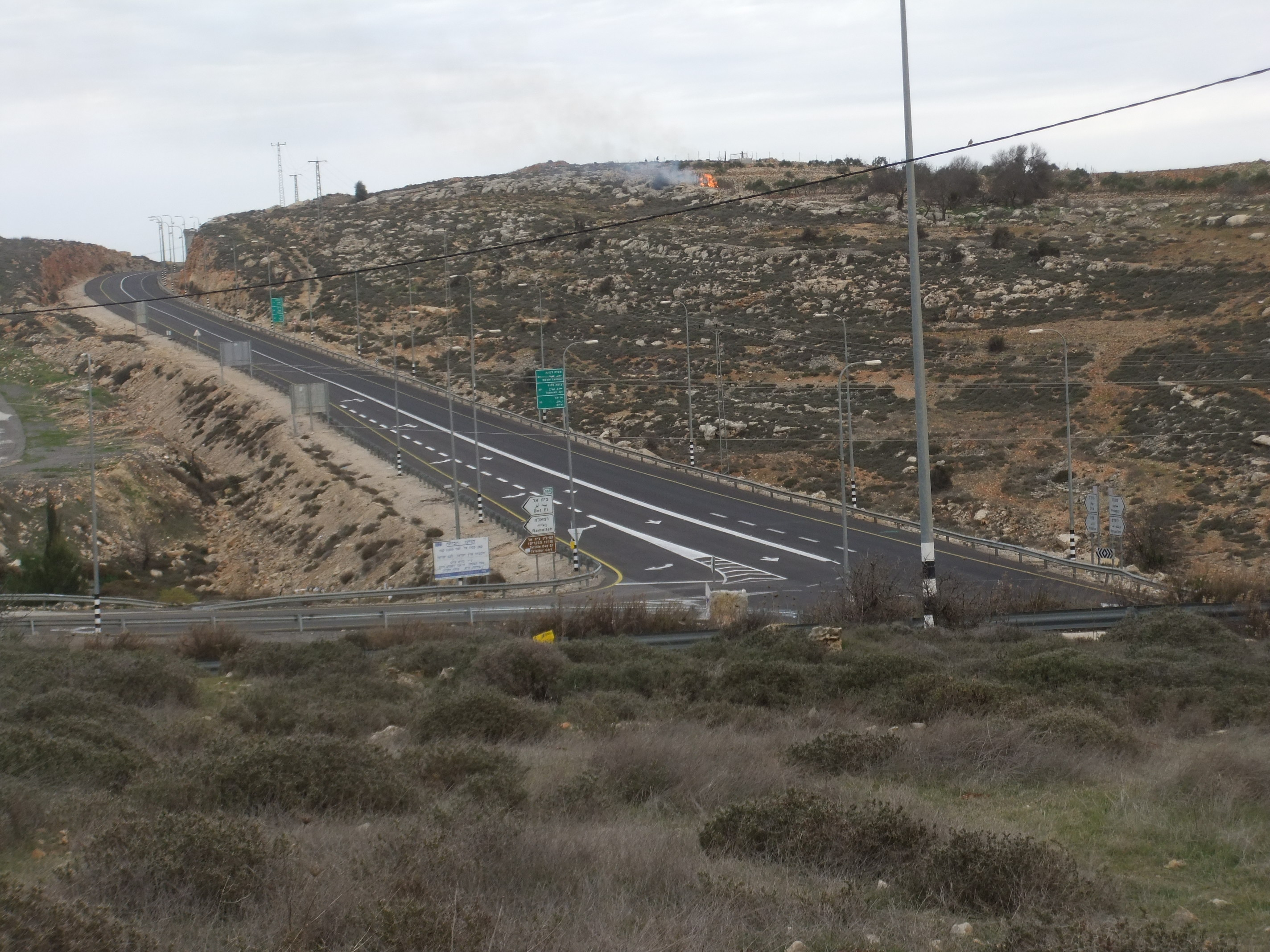 B60 (Israel/Palestine) view to the north near Assaf junction